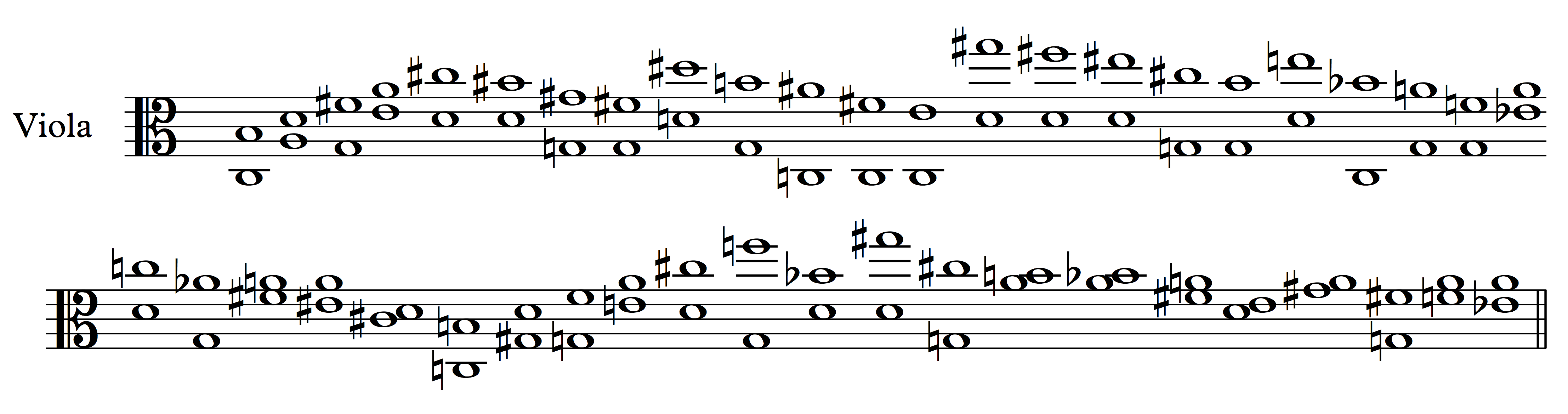 The 45 double stops that are looped in the second movement of Ligeti's Viola Sonata.